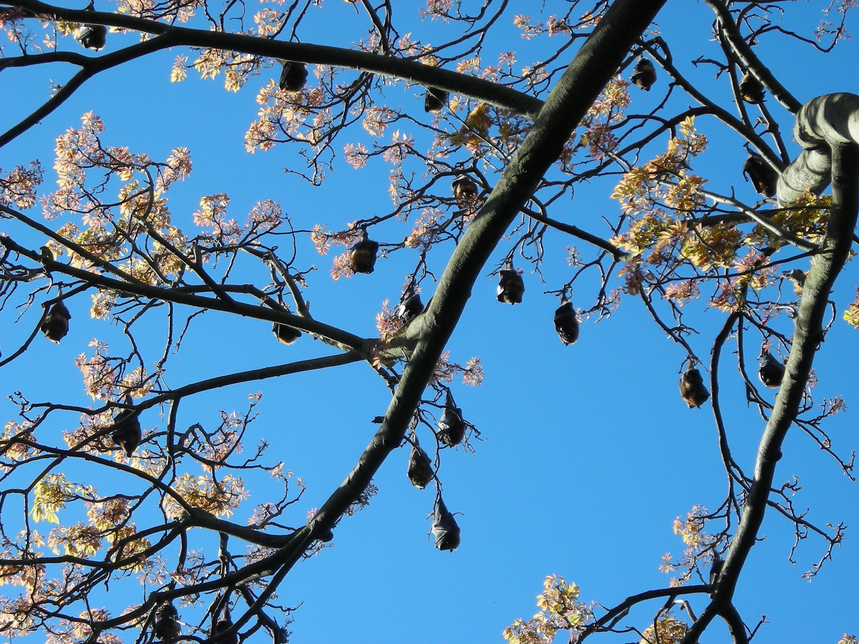 Grey Headed Flying Foxes roosting in the botanical gardens, Sydney